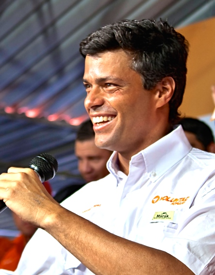 Leopoldo Lopez speaking to a crowd.